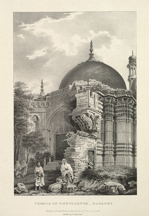 "Temple Of Vishveshwur, Benares," lithograph, by the Anglo-Indian scholar and mint assay master James Prinsep. Dated 1834. Courtesy of the British Library, London. The image is that of the Gyanvapi mosque, which is believed to have been built after the destruction of the Kashi Vishwanath temple ("Temple of Vishveshwur") at the site. The remains of the temple can be seen in this picture.